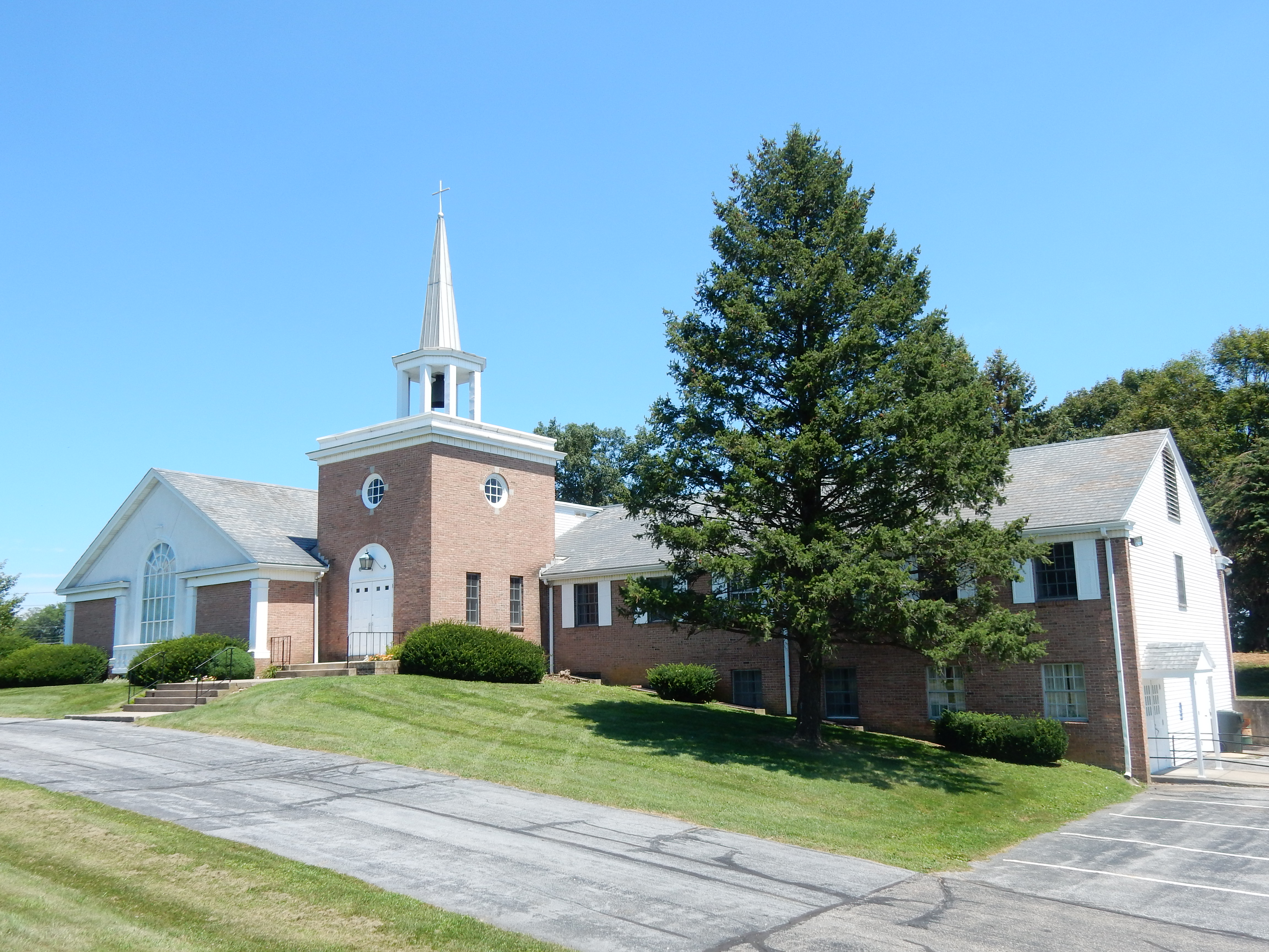 Christ United Church of Christ, Airport Rd., Schoenersville, Hanover Township, Northampton County, Pennsylvania. Corner of Orchard Ln.